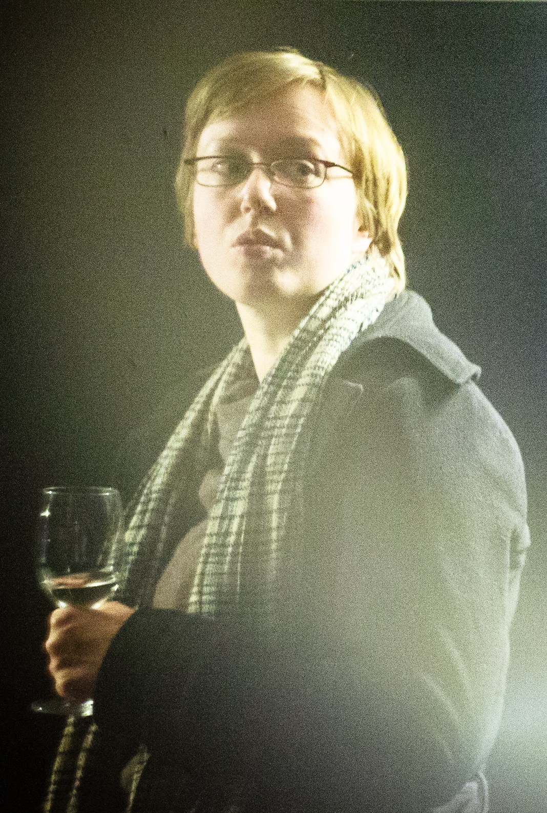 Cinema director Giedrė Beinoriūtė